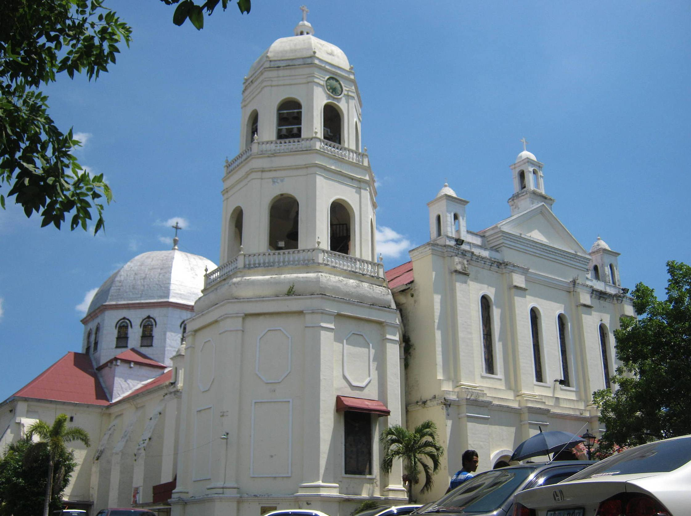 Facade of the Minor Basilica